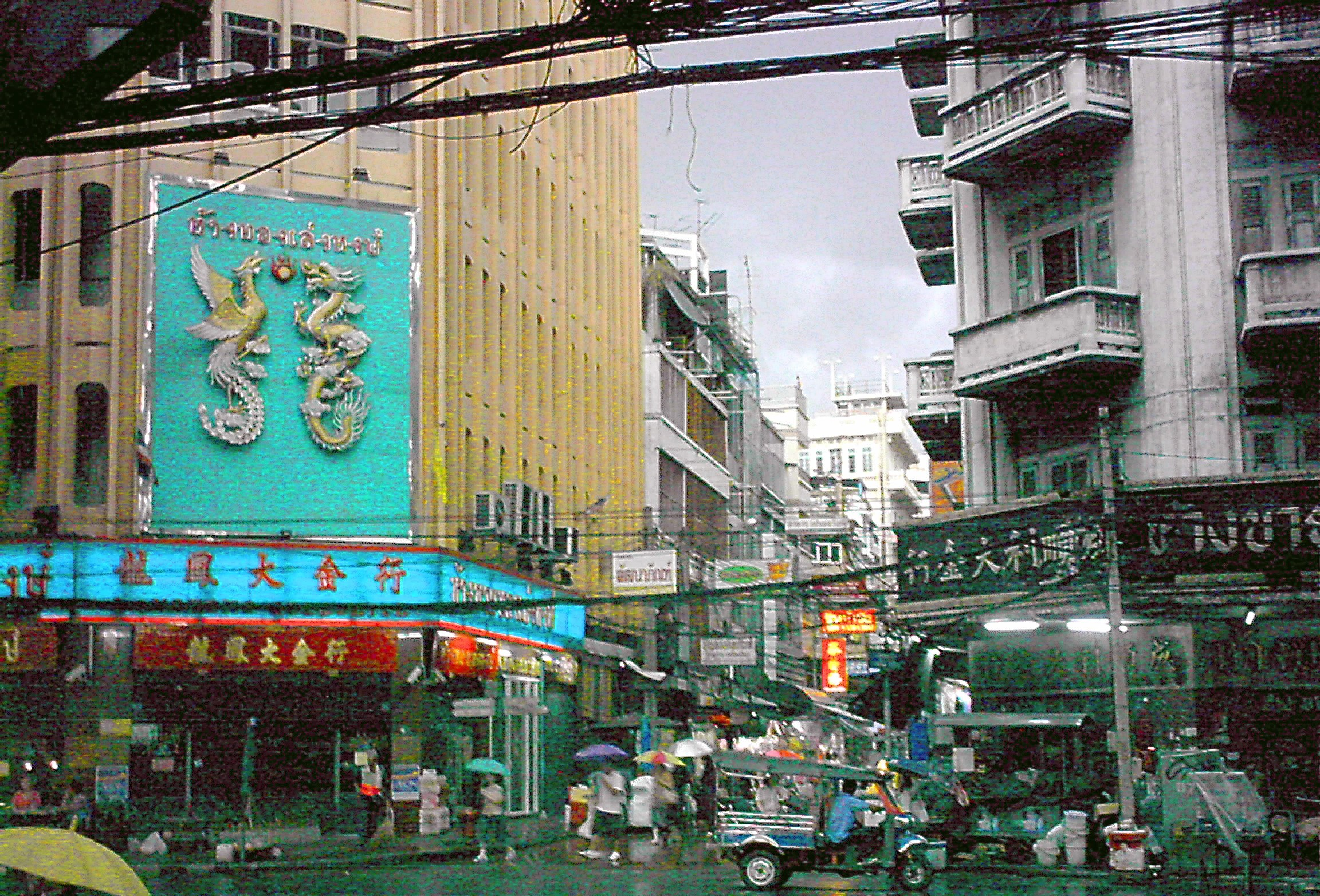 Thanon Mangkon, view from Yaowarat Road, Bangkok, Thailand 中文（香港）: 泰國，曼谷，從耀華力路遠眺演說街。